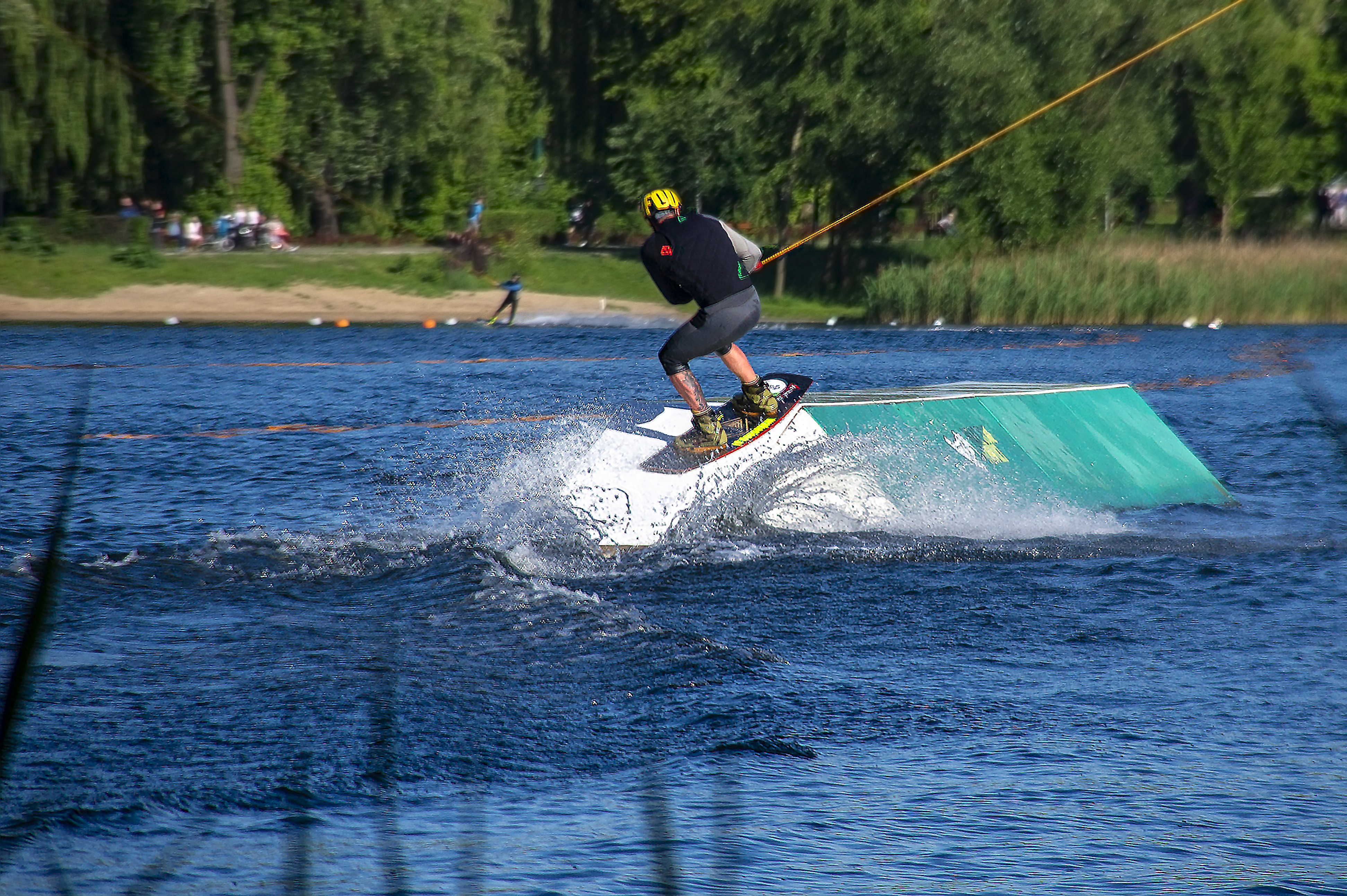 WakeBoarding on Stawiki Pond in Sosnowiec